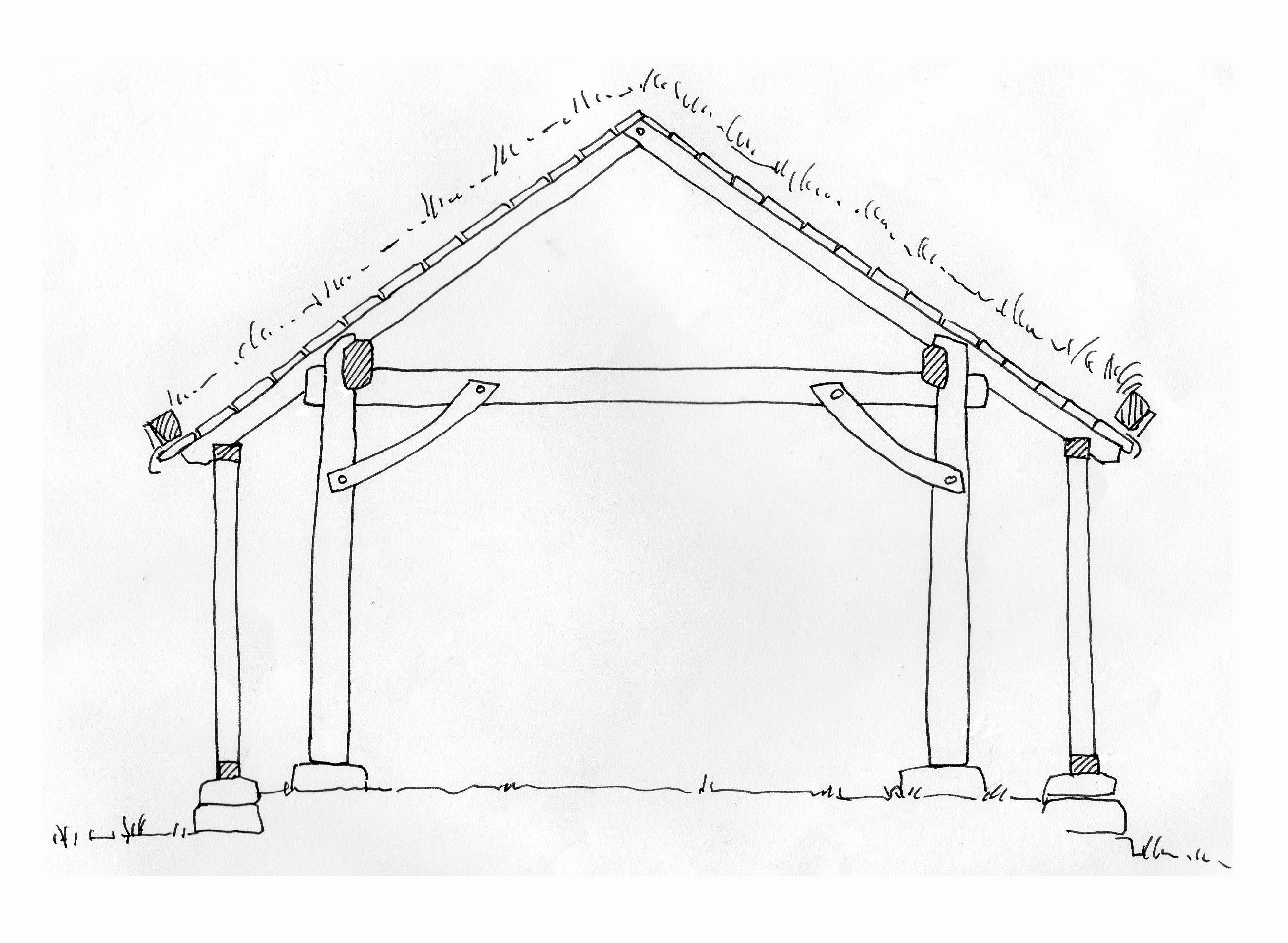 Section of a typical Norwegian trestle-frame building.